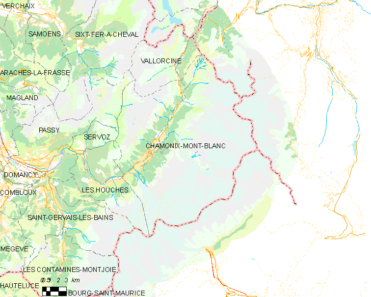 Map of French municipality Chamonix-Mont-Blanc